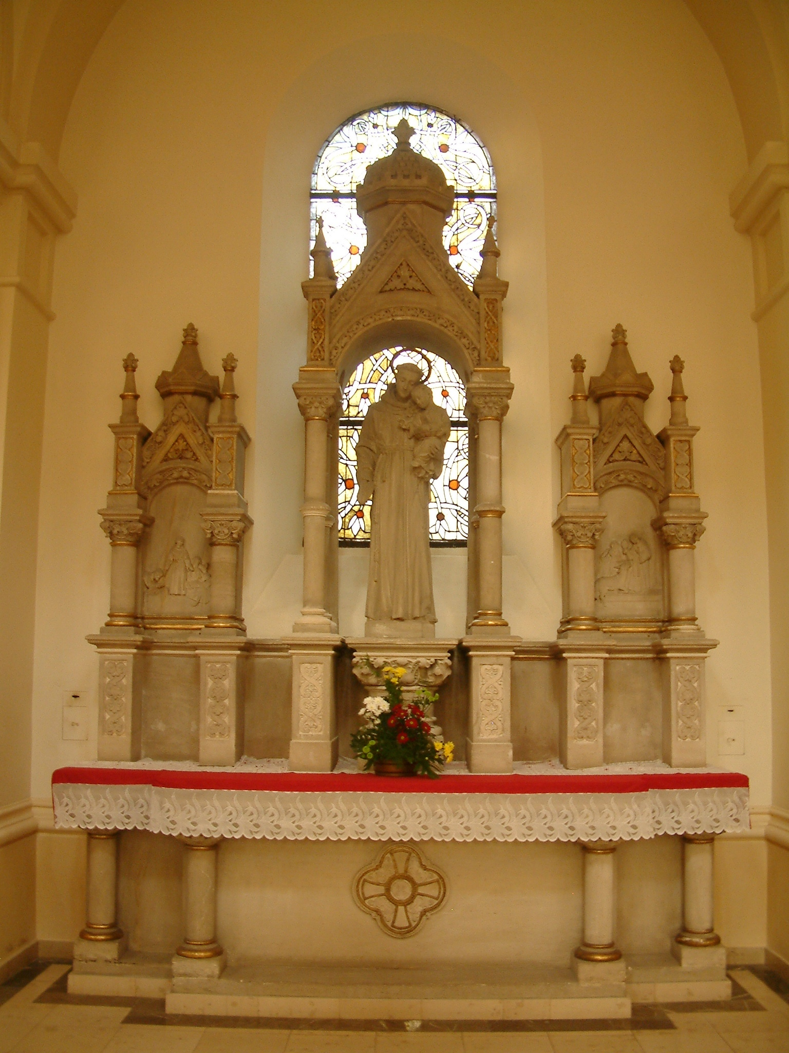 Church of Mother of Sorrow in Poznań, Altar of St. Anthony of Padua